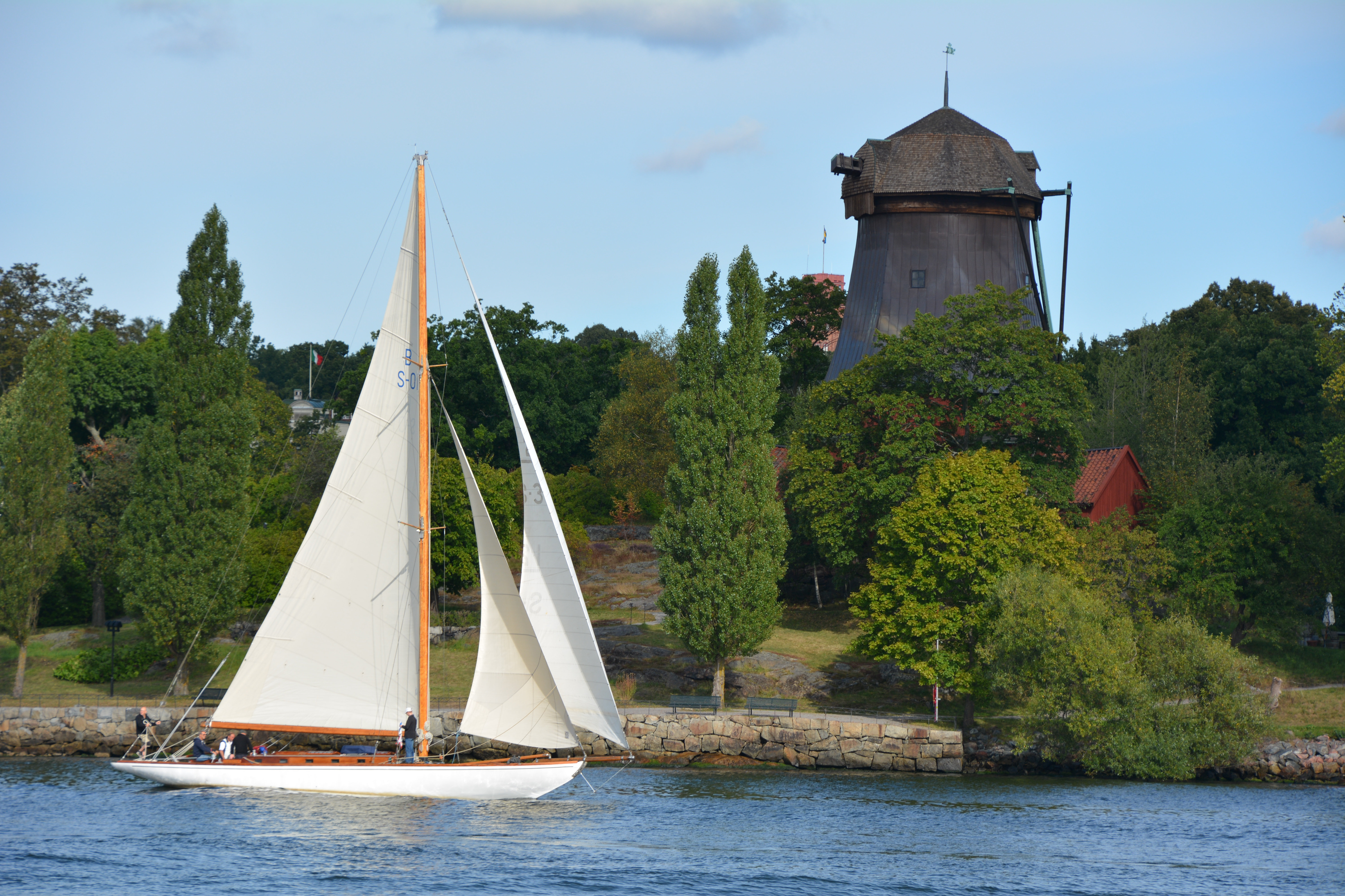 Beatrice Aurore framför kvarnen på Valdemarsudde i Stockholm Beatrice Aurore är en skärgårdskryssare SK 150, byggd som EBE 1920 av August Plym på Neglingevarvet i Saltsjöbaden, har tidigare också haft namnet Ebella